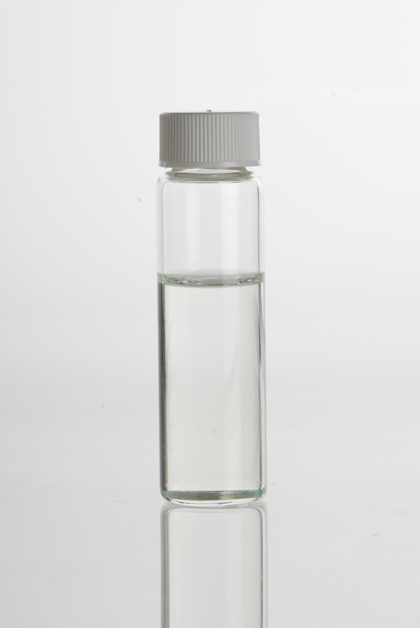 Ravensara (Ravensara aromatica) Essential Oil in clear glass vial